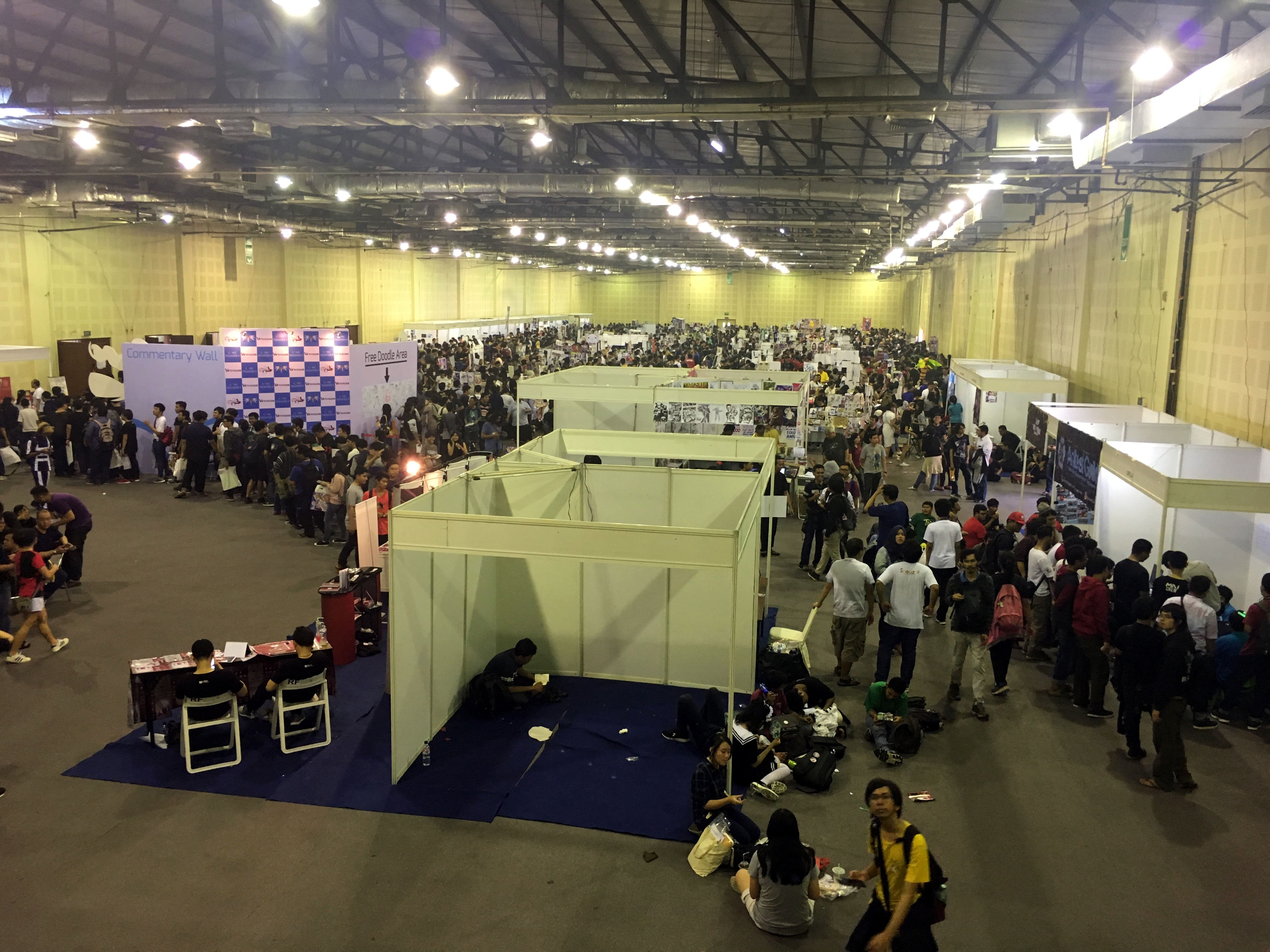 Overview of Comic Frontier 9